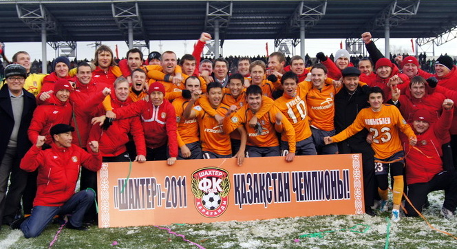 DPSK77